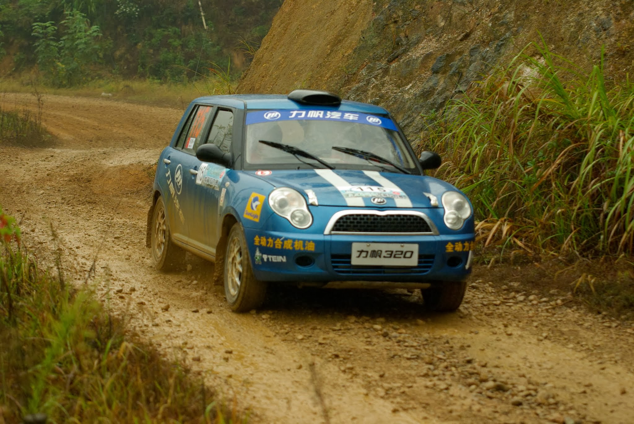 _IGP9196.JPGLifan 320 as a racing car, APRC China Rally 2013 SS8&11